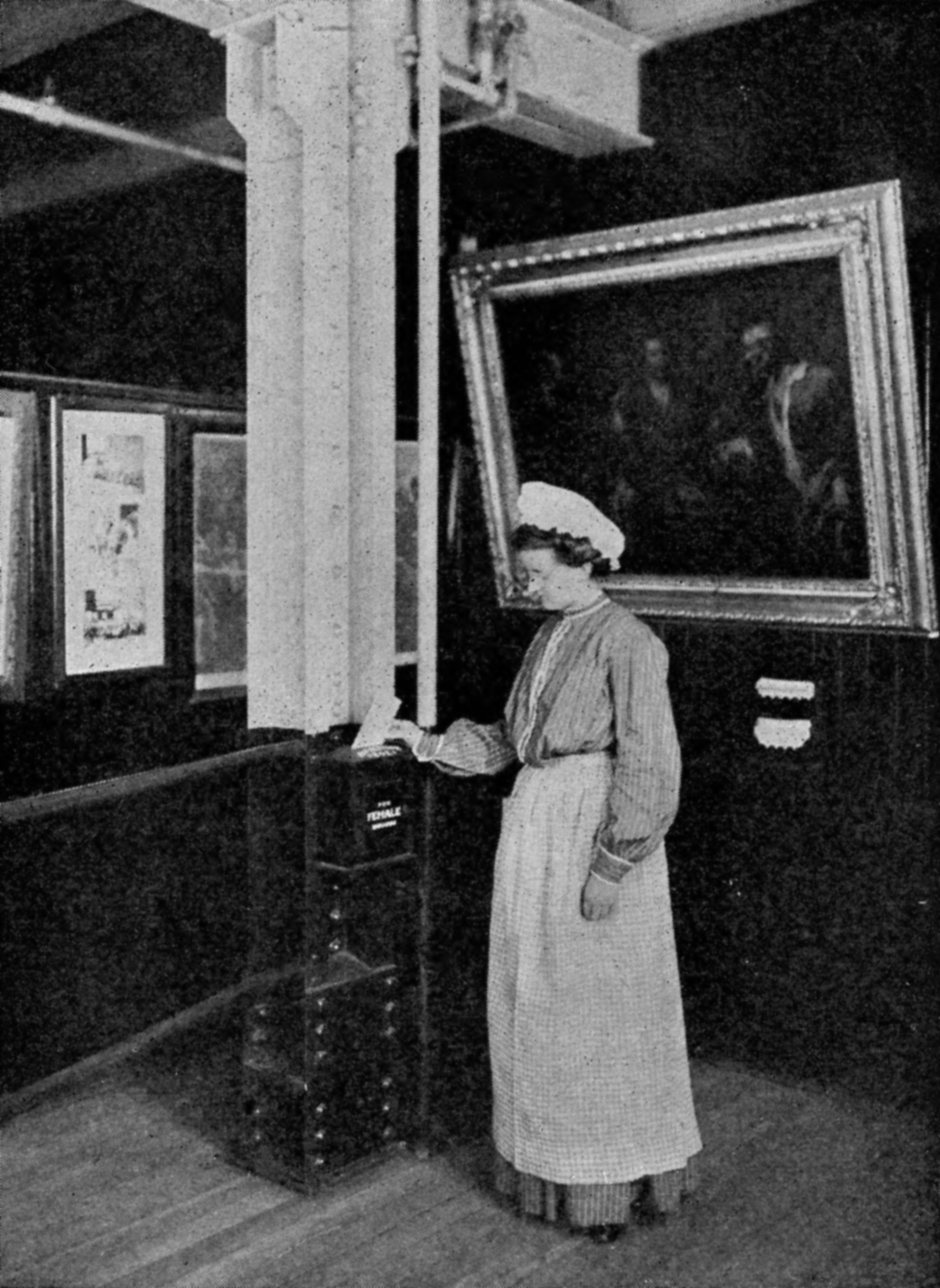 A woman leaving a suggestion in the suggestion box at the H. J. Heinz plant. The box is labelled "FEMALE". Behind her is an unknown painting. From the materials for the Alaska-Yukon-Pacific Exposition of 1909, held in Seattle.